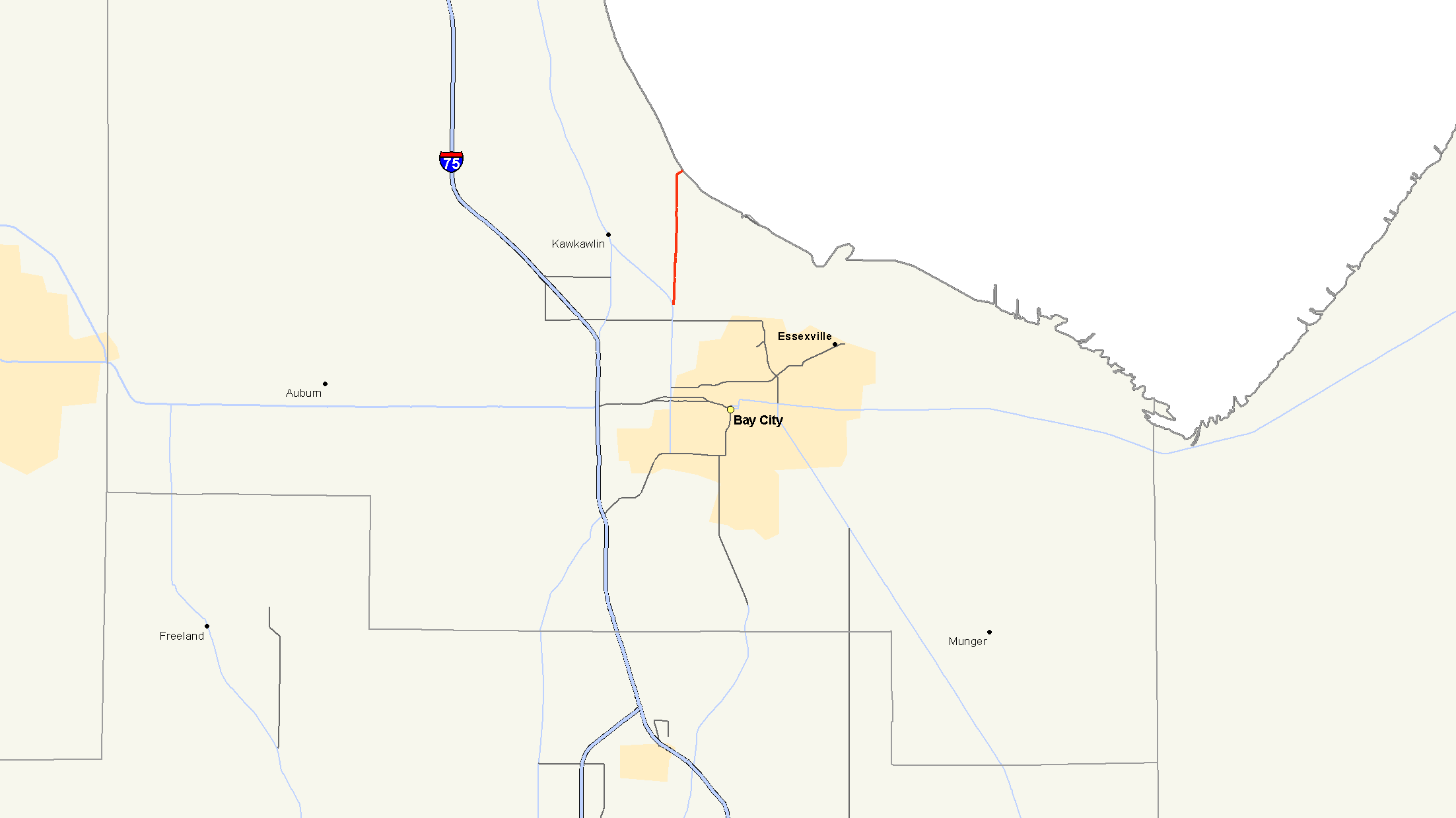 Map of M-247